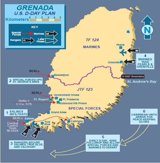 Image of the U.S. D-Day Plan, Invasion of Grenada: Operation Urgent Fury. Joint Military Operations Historical Collection (JMOHC).